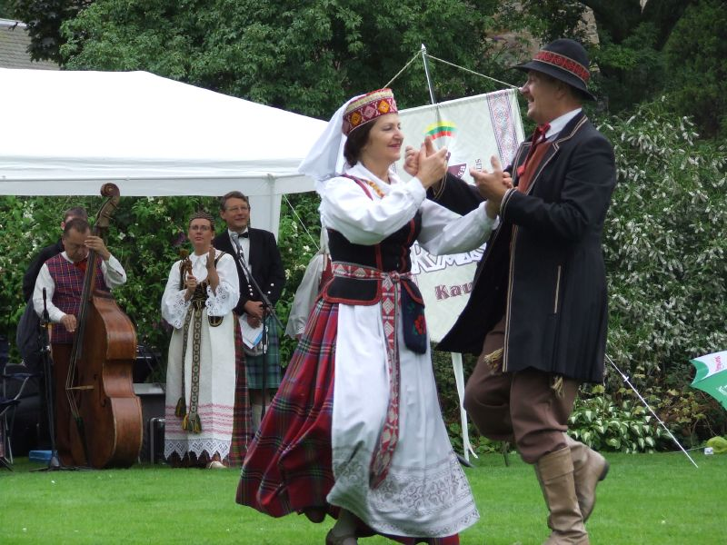 Lithuanian traditional dance troupe Rasa performing in Scotland during the 19th International Folk Dance Festival